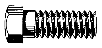 Line art drawing of a screw thread